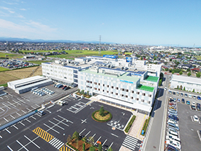 DCIM\100MEDIA\DJI_0823.JPG